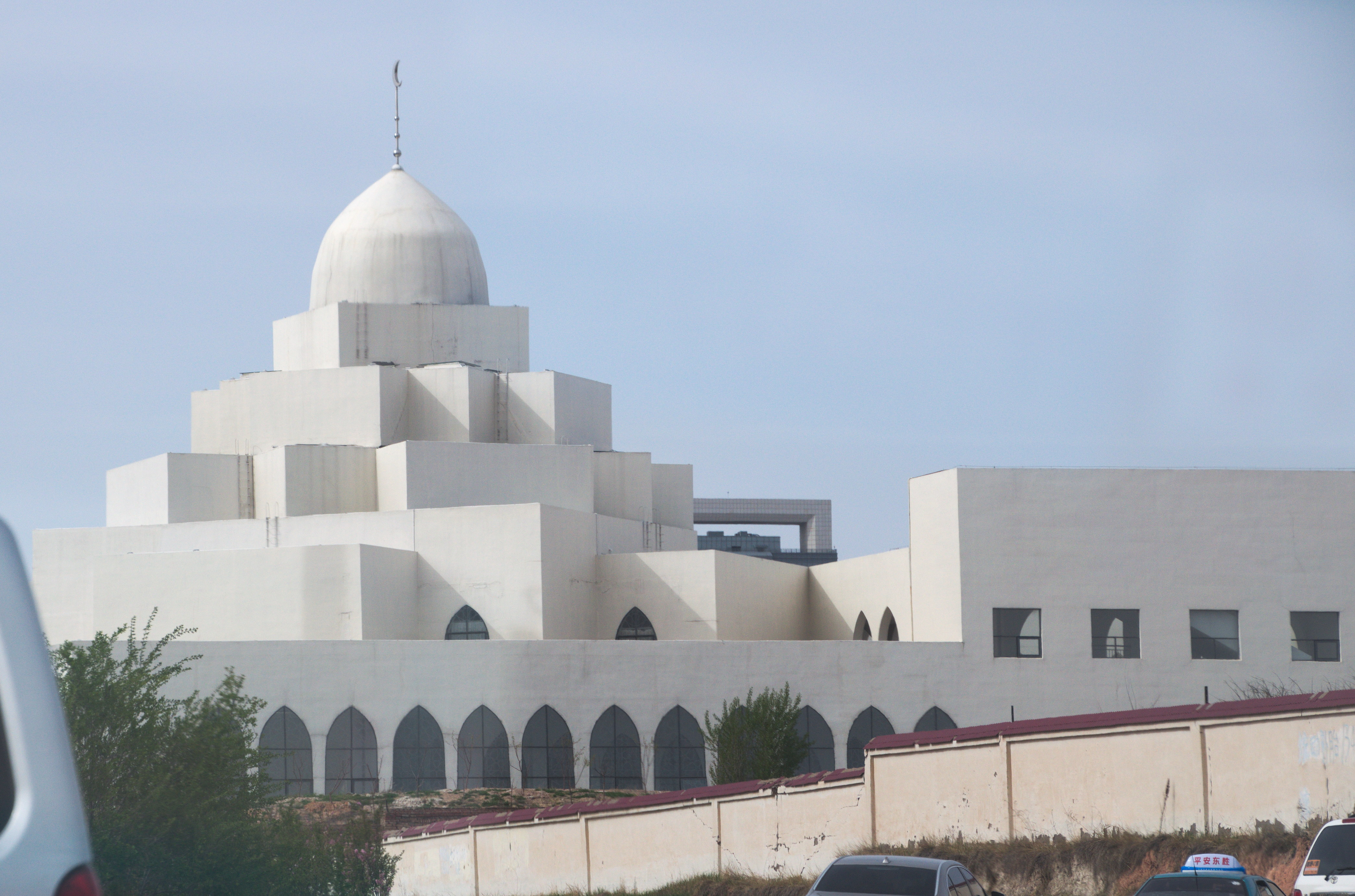 Ordos Dongcheng district Mosque, Inner Mongolia, China